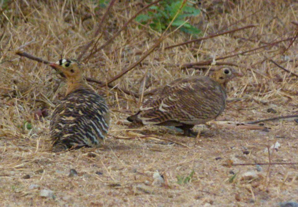 Pterocles indicus (male and female). Daroji WLS, India